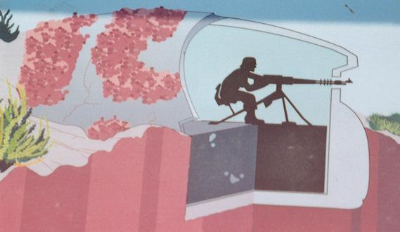 Wall painting on a Spanish coastal bunker built during World War II on the southern coast of Tenerife (Canary Islands), near the town of El Médano and the volcanic mountain known as Montaña Roja. The bunker is no longer in use.